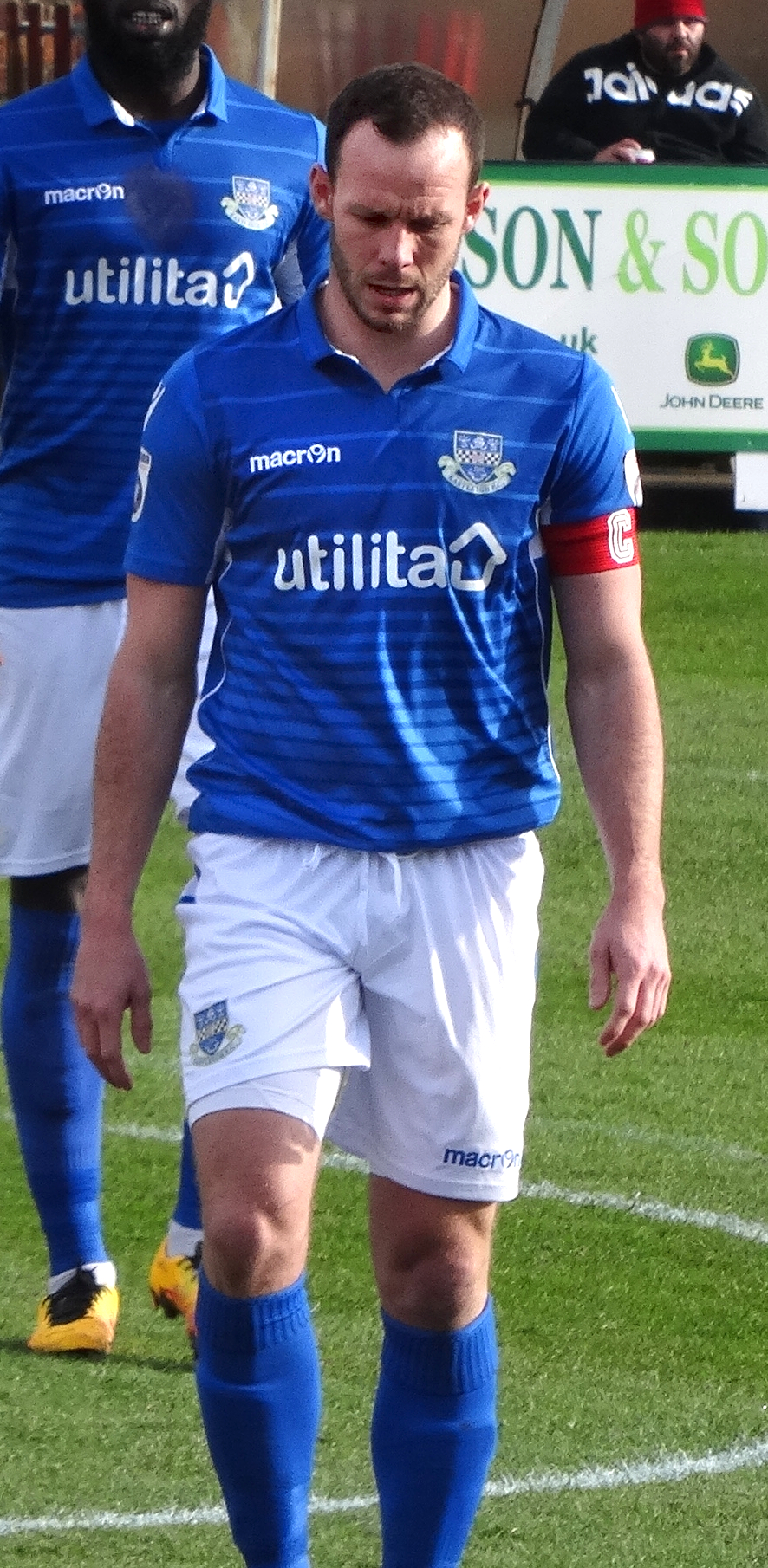 Sam Togwell playing for Eastleigh against York City at Bootham Crescent, York on 4 March 2017